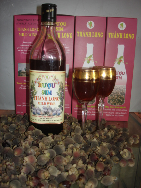 Fruits of Rhodomyrtus tomentosa and wine from Rhodomyrtus tomentosa, Vietnam